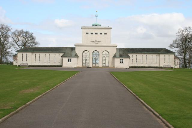 Runnymede. The Air Forces Memorial at Runnymede, Surrey, commemorates by name the 20,401 airmen who were lost in the Second World War during operations from bases in the United Kingdom and North and Western Europe, and who have no known graves. They served in Bomber, Fighter, Coastal, Transport, Flying Training and Maintenance Commands; they came from all parts of British Commonwealth and Empire, and some were from countries in continental Europe which had been over-run but whose airmen continued to fight in the ranks of the Royal Air Force. The site, on a spur of Cooper's Hill, was donated for the memorial in 1949 by Sir Eugen and Lady Effie Millington-Drake; it overlooks the Thames and the riverside meadow where Magna Carta, enshrining man's basic freedoms under law, was sealed by King John on 15 June 1215